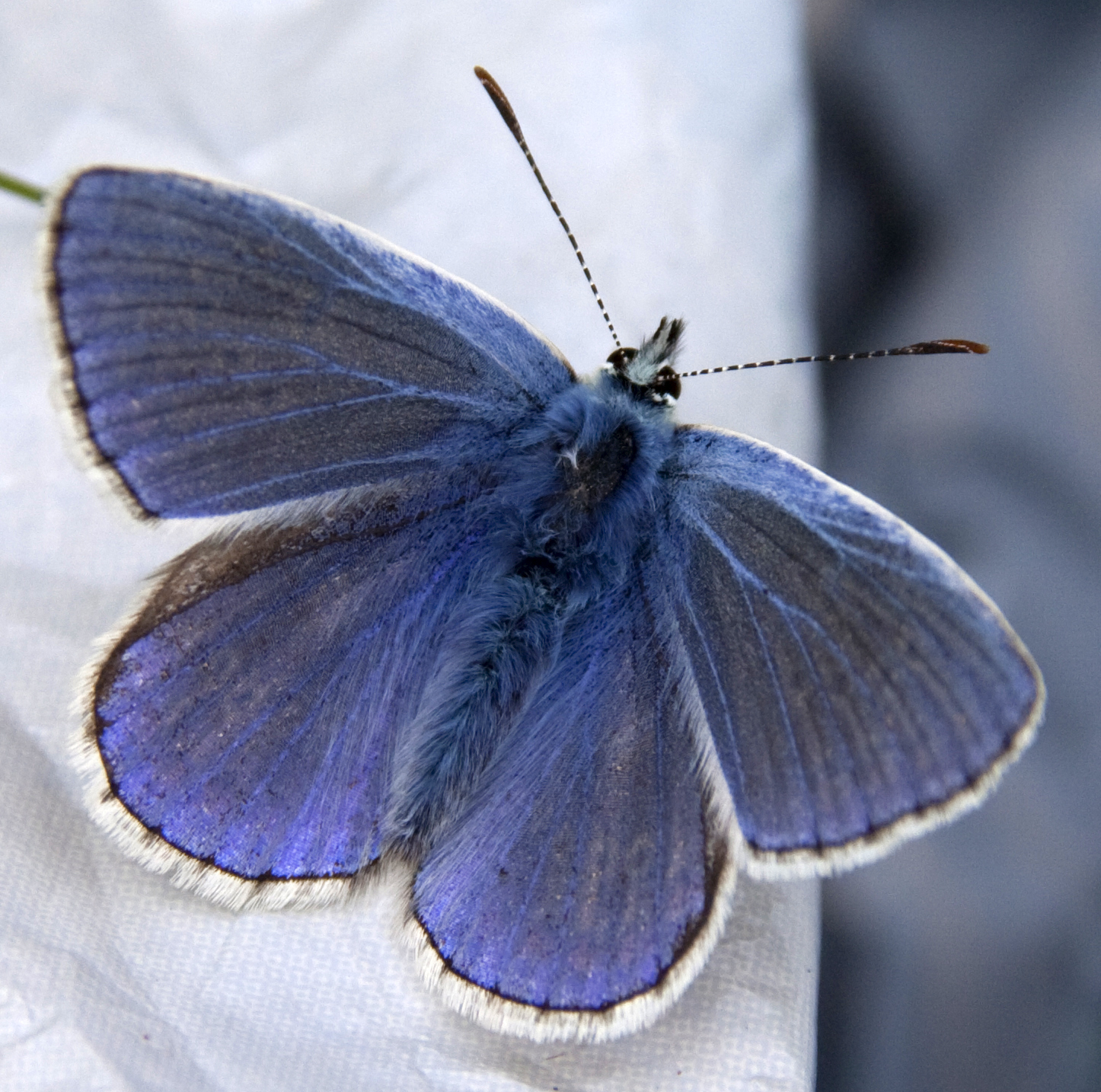 Polyommatus icarus Although the weather has been good, I have not seen many butterflies except for these common blues.